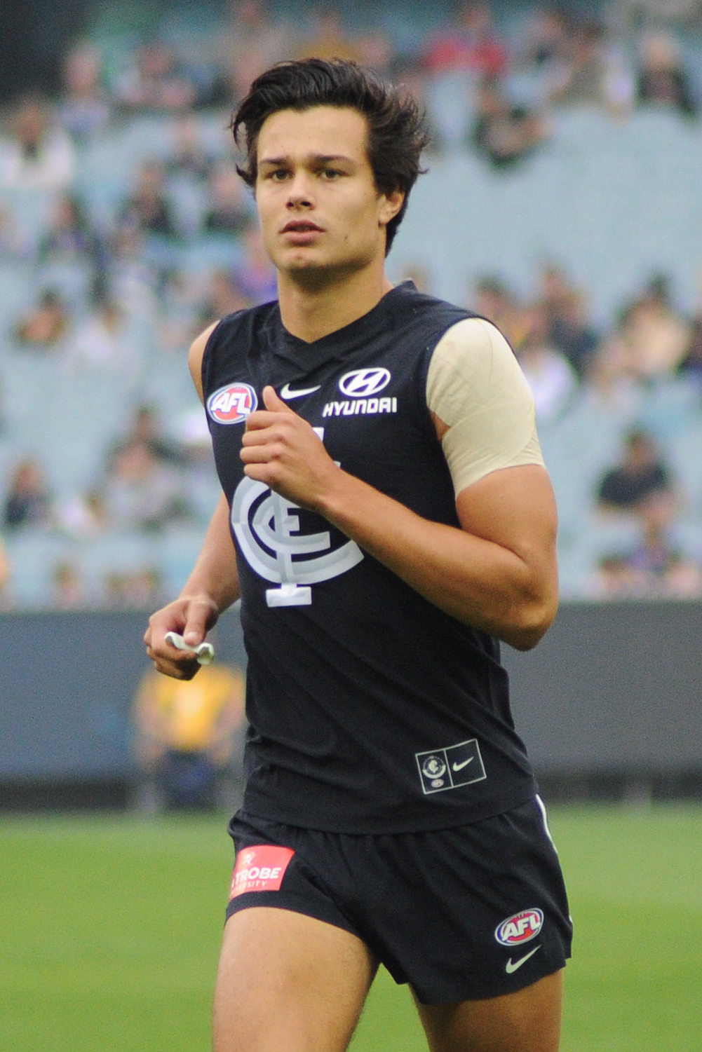 Jack Silvagni during the AFL round five match between Carlton and West Coast on 21 April 2018 at the Melbourne Cricket Ground in Melbourne, Victoria.